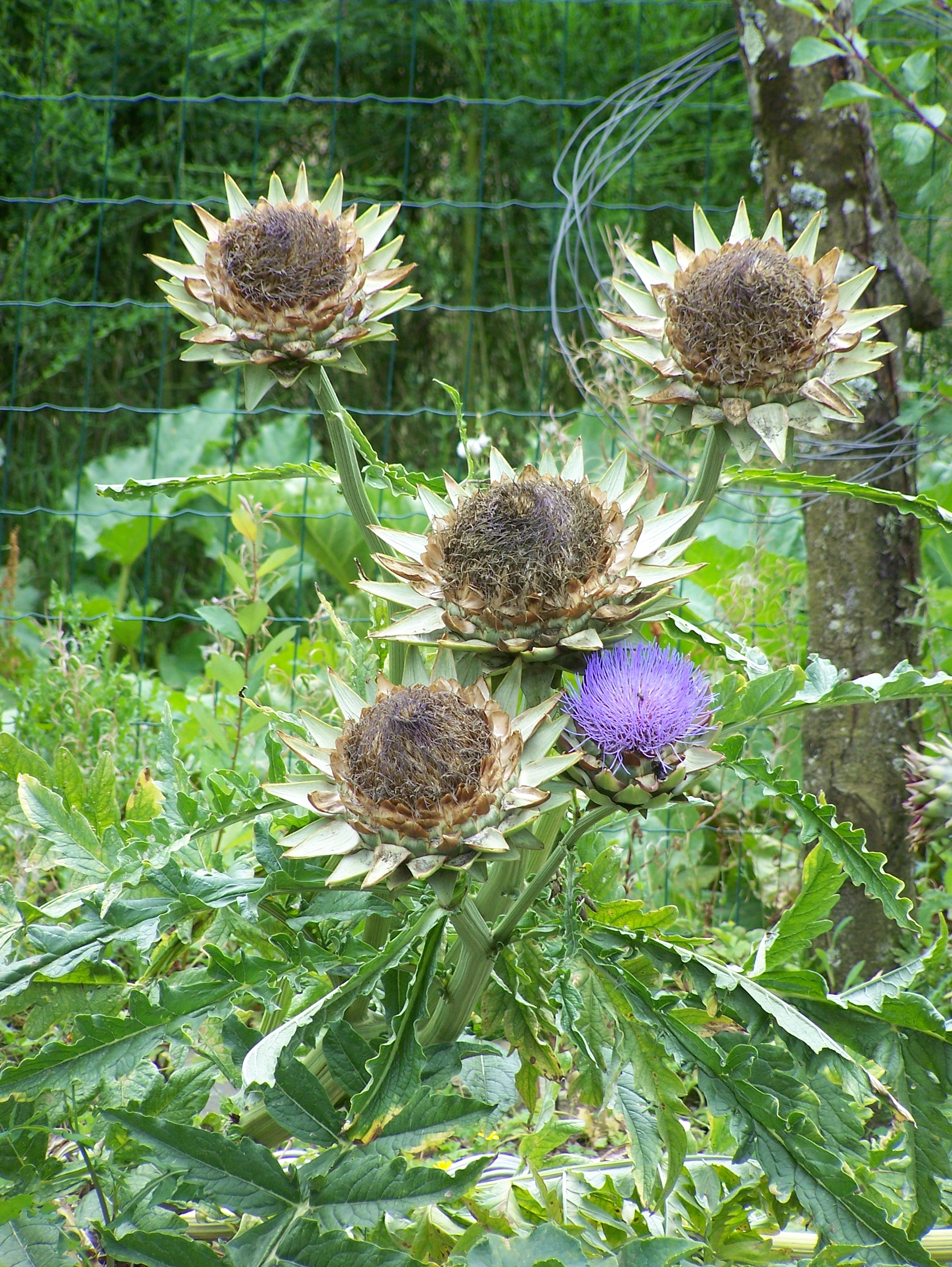 This holiday I ate (fresh) artichokes for the first time in my life. They tasted lovely! And now I also know how they grow.